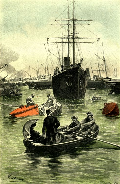 An ilustration from the novel "Mistress Branican" by Jules Verne painted by Léon Benett.